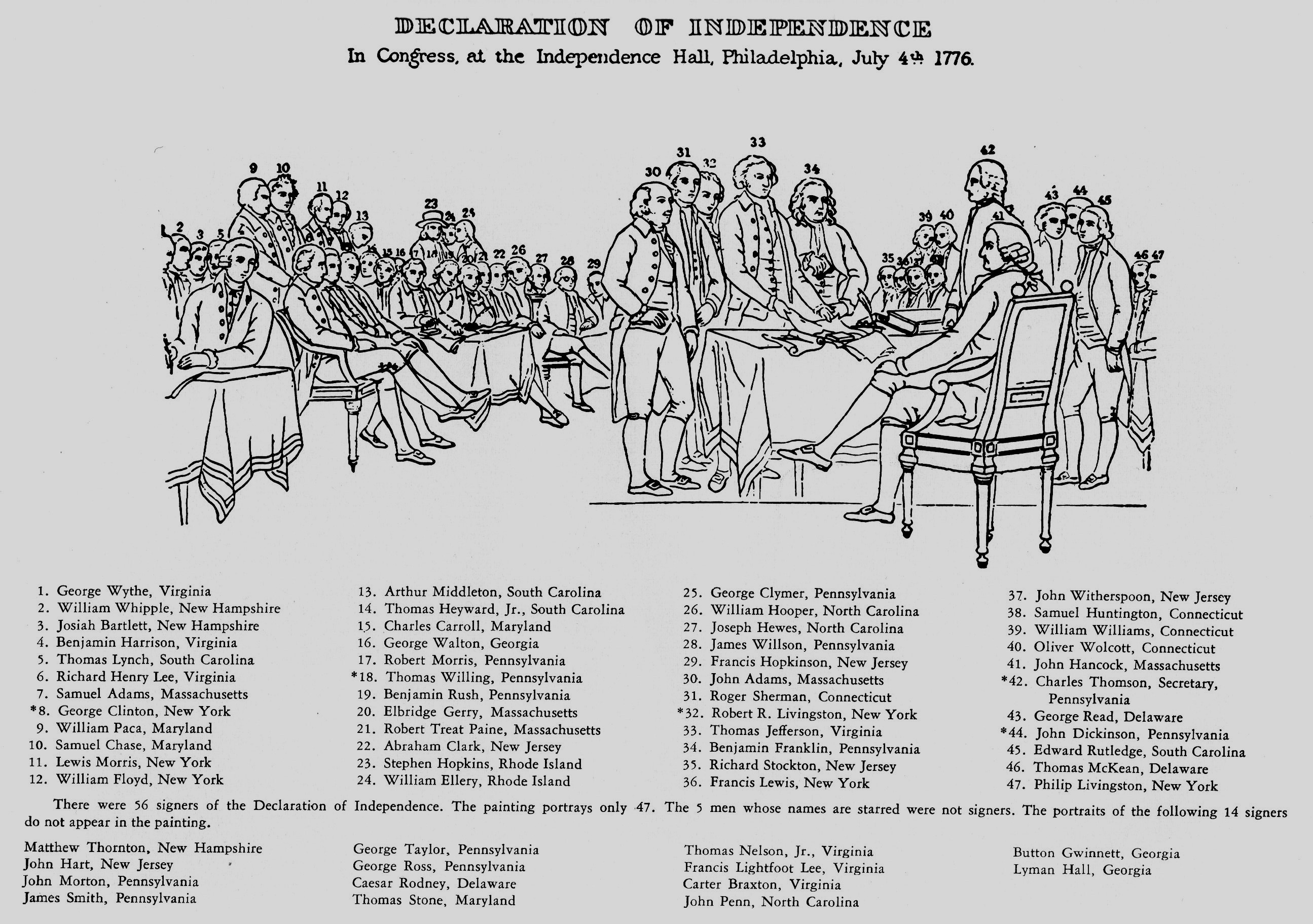 A key identifying the subjects of John Trumbull's painting Declaration of Independence, a well-known work which hangs in the United States Capitol building (purchased from the painter in 1819). Also known as Declaration of Independence in Congress, at the Independence Hall, Philadelphia, July 4th, 1776.